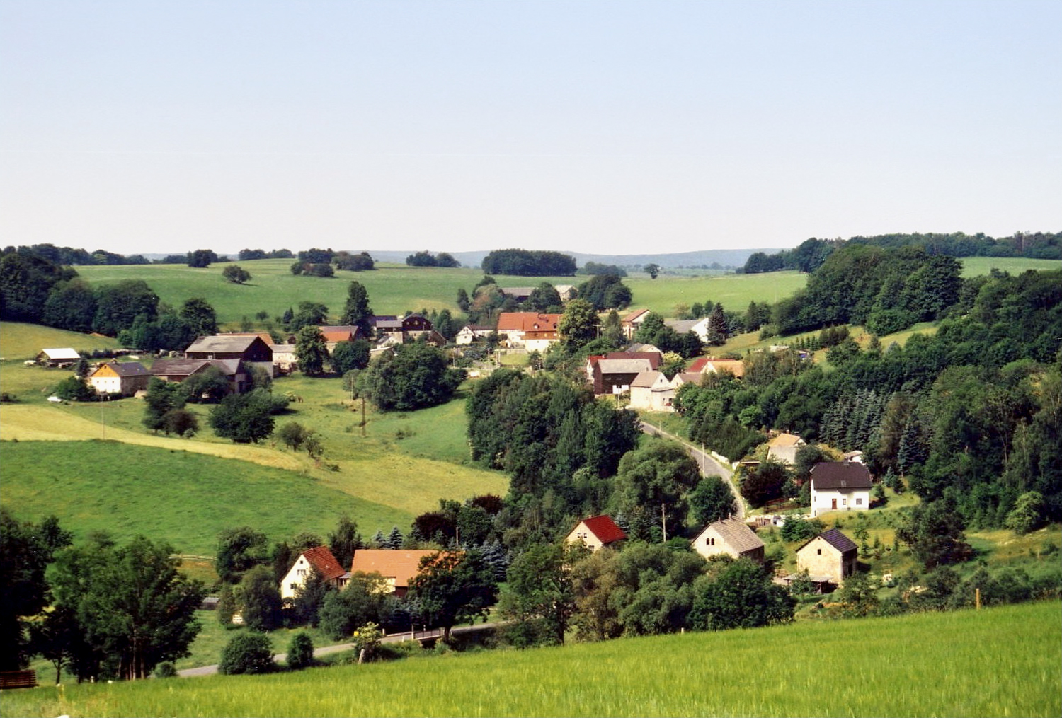 This image shows Hennersbach in Saxony, Germany.